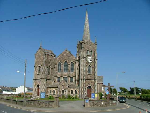 Flexbury Park Methodist Church. Opened in April 1905.